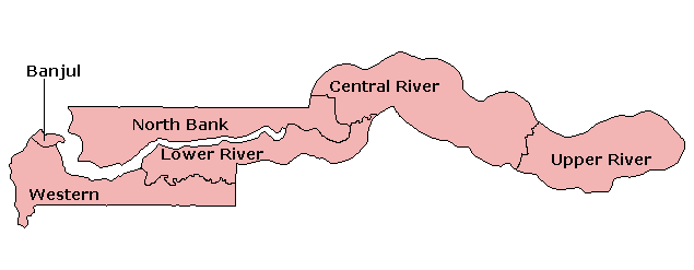 Administrative divisions of The Gambia